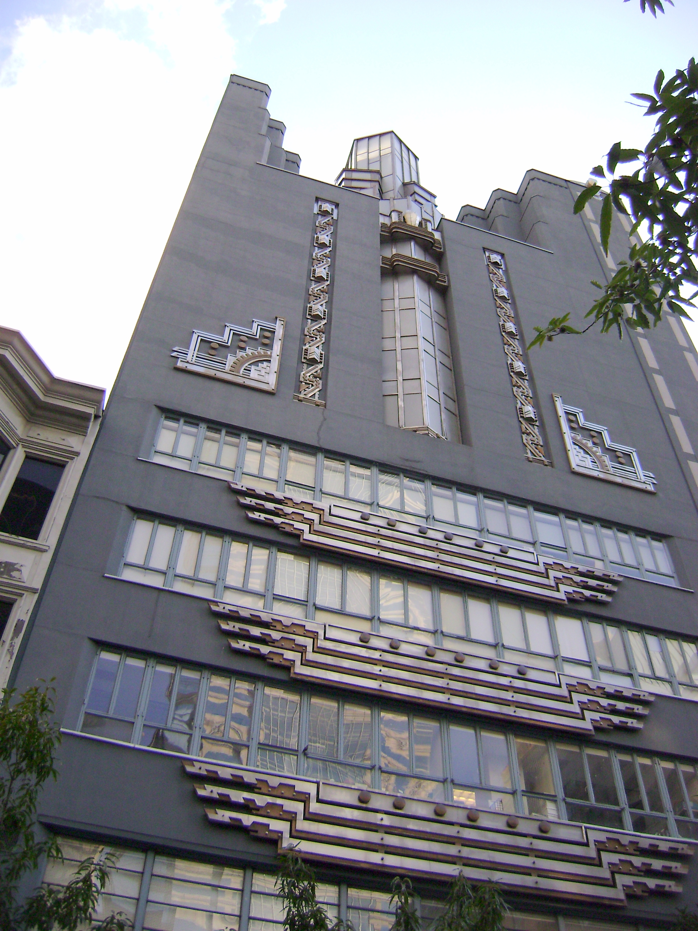 WCAU, the historic location at w:1618 Chestnut St.